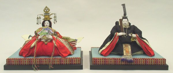 Dairibina 内裏雛 Дайрибина — пара куклы Императора и Императрицы, выставленная в домах на всеобщее обозрение в «Хинамацури»: Haiku by Matsuo Basho: [ IB ] 大裏雛人形天皇の御宇とかや [90] [ HS ] 内裏雛人形天皇の御宇とかや [93] [ HK ] だいりびなにんぎやうてんのうのぎようとかや [ CK ] だいりびなにんぎょうてんのうのぎょうとかや [ RN ] dairibina / ningyō ten’nō no / gyou toka ya